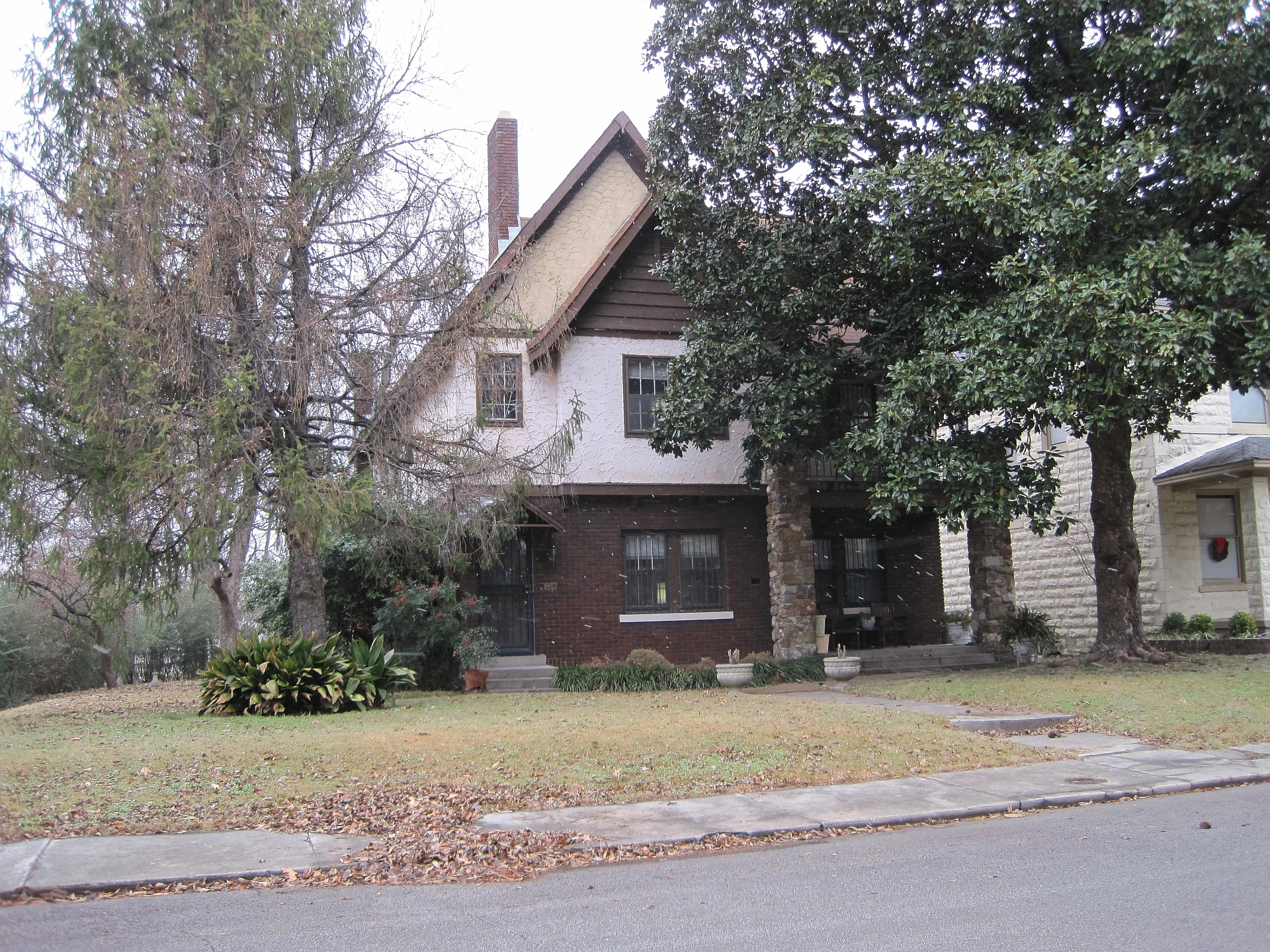 Kemmons Wilson house at 1170 Dorothy Place in Memphis, Tennessee.